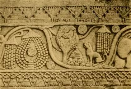 A sculpture of the Kukuta-Jataka from the Bharhut Stupa (c.150 BCE) now in the Calcutta Museum